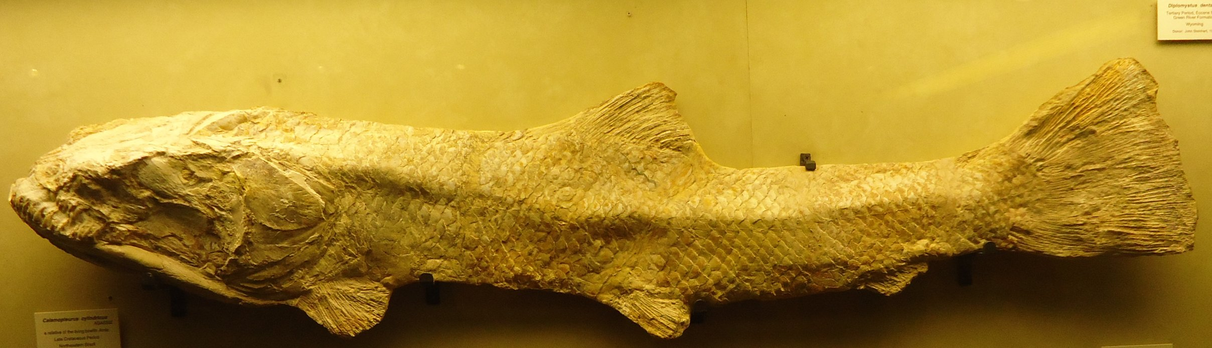 Bones and remains of prehistoric animals A bowfin relative from the cretaceous.